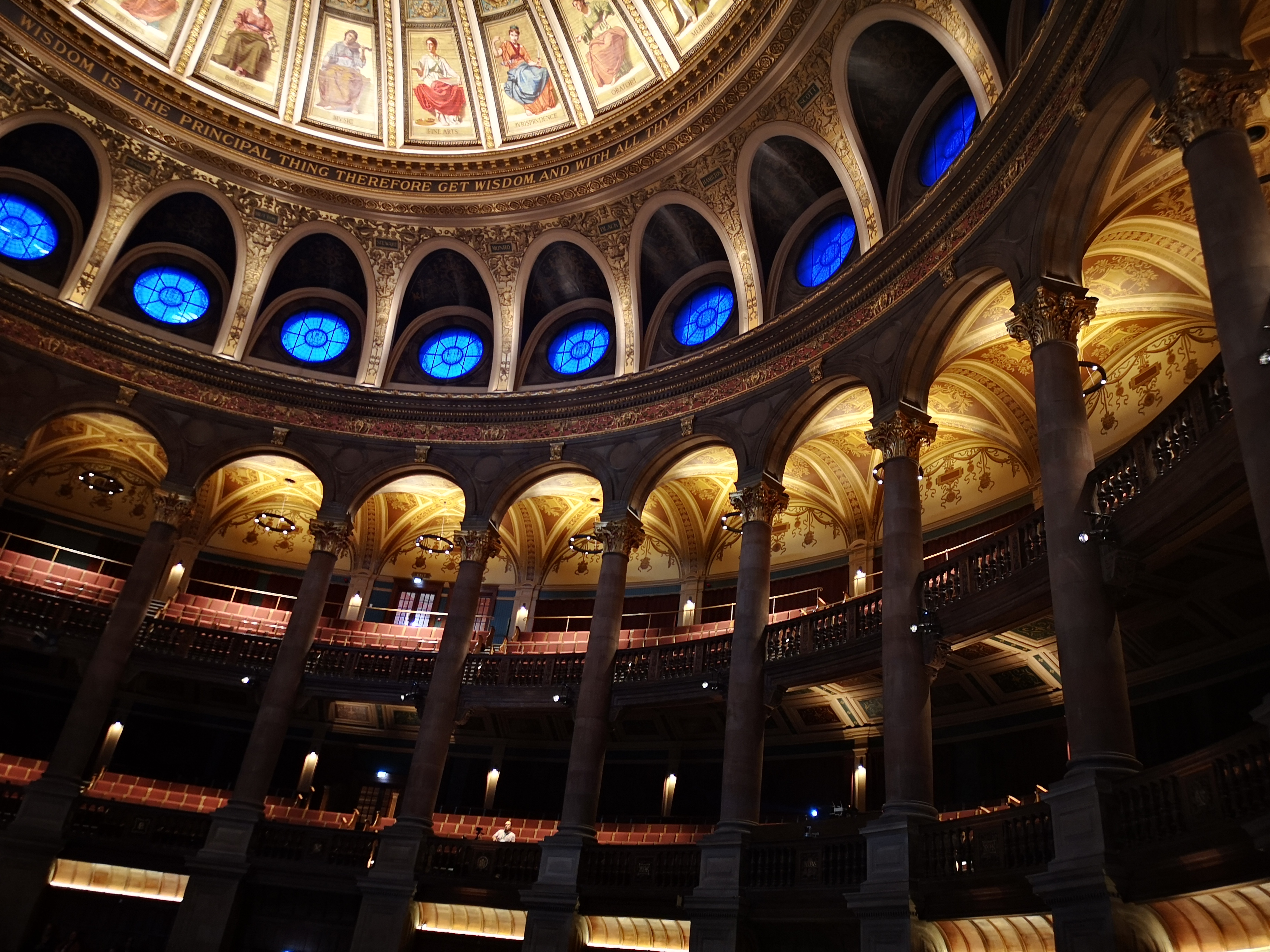 Looking up to the ceiling of McEwan Hall, University of Edinburgh